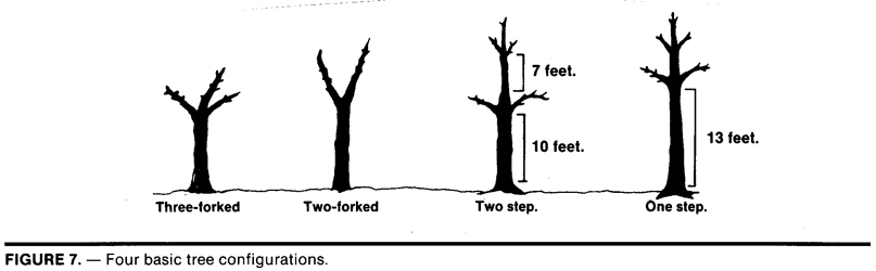 PaulowniaPrune